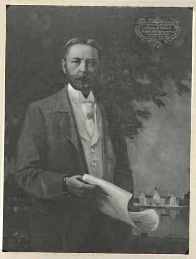 The german architekt Hans Grässel (1860-1939)